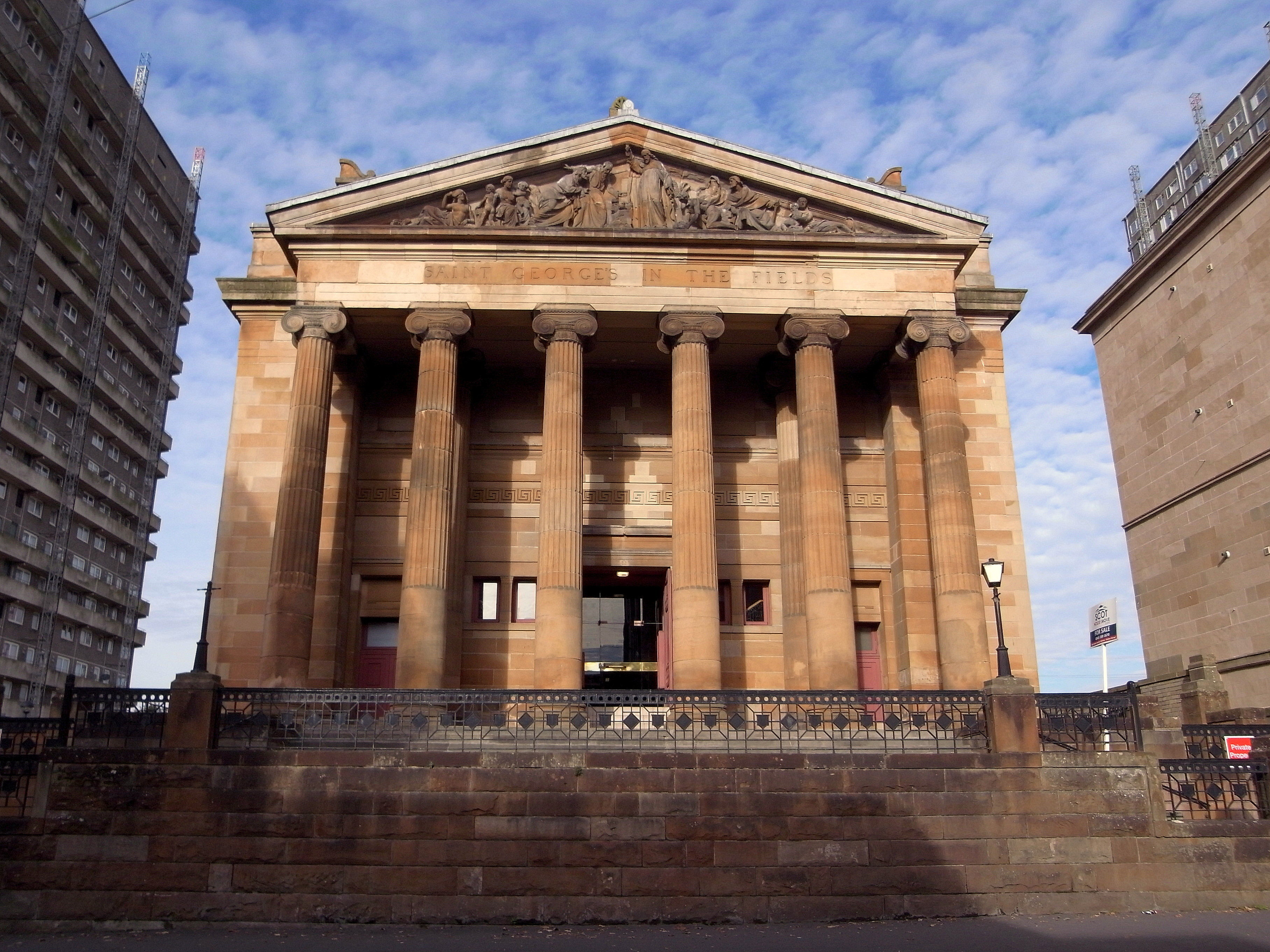 Glasgow. Woodside. St George's in the Fields (1885-1886), architects: Hugh (1828-92) & David (1856-1917) Barclay. Sculpture in the portico's tympanum (Christ Feeding The Multitude) by William Birnie Rhind (1853-1933). Church converted to housing in 1988-1989. 485 St George's Road.